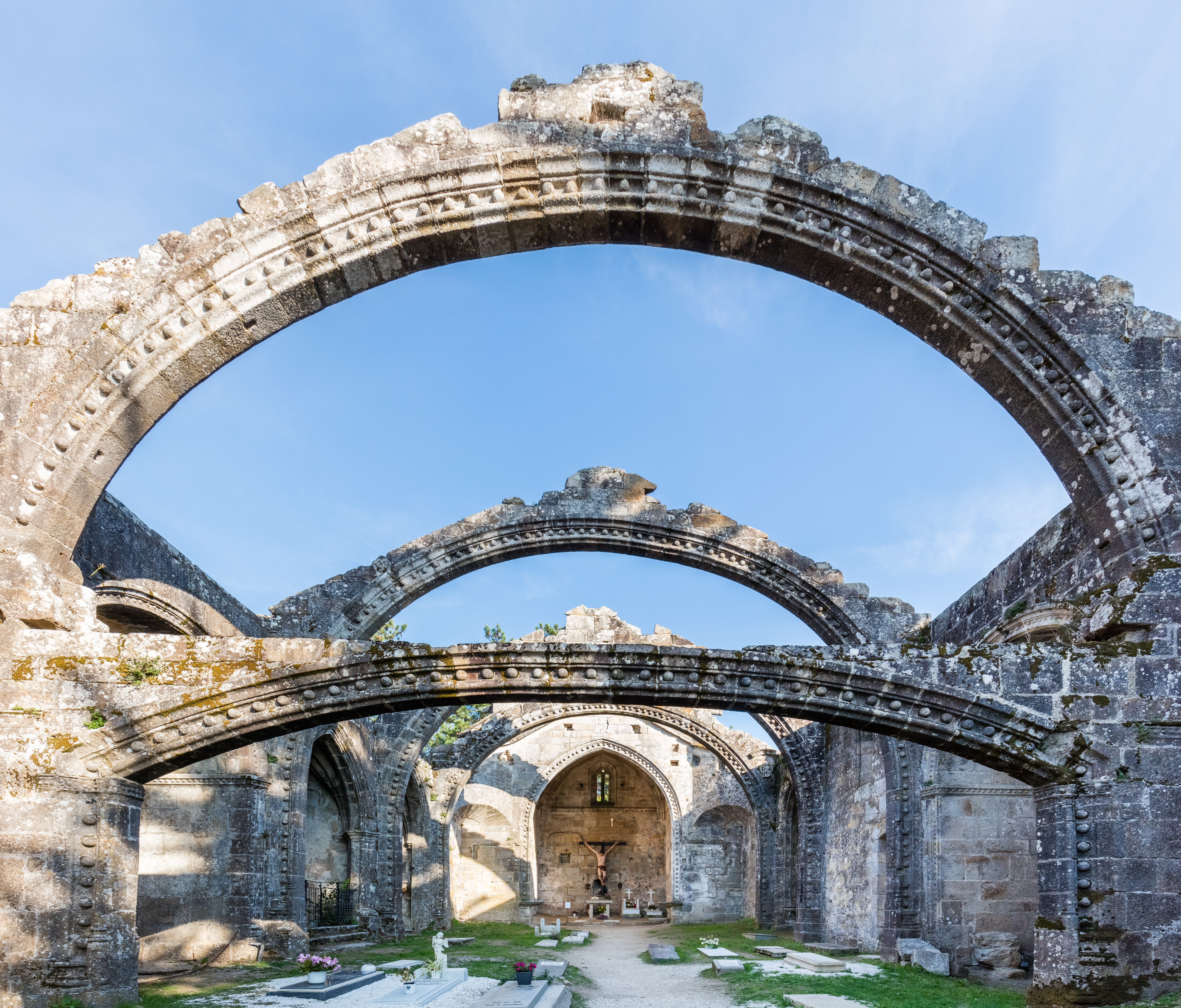 Remains of the church of St Mariña Dozo, Cambados, Pontevedra, Spain. The gothic church was built in the 15th century over a former Romanesque church of the 12th century by order of María de Ulloa, mother of Alonso III Fonseca. In 1943 it was declared National Heritage Monument in Spain.